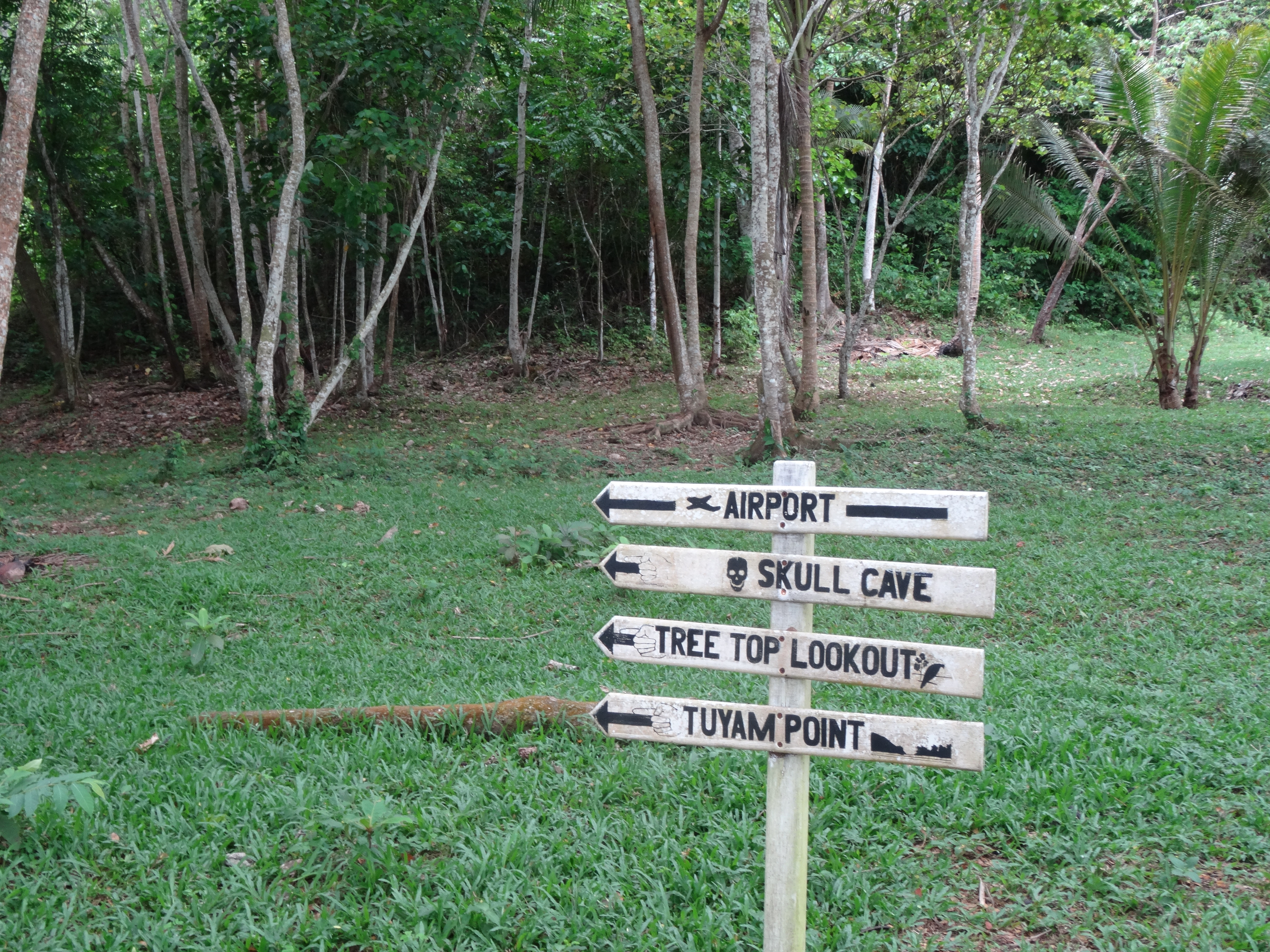 Airport Sign at Doini Island, Papua New Guinea, Oceania